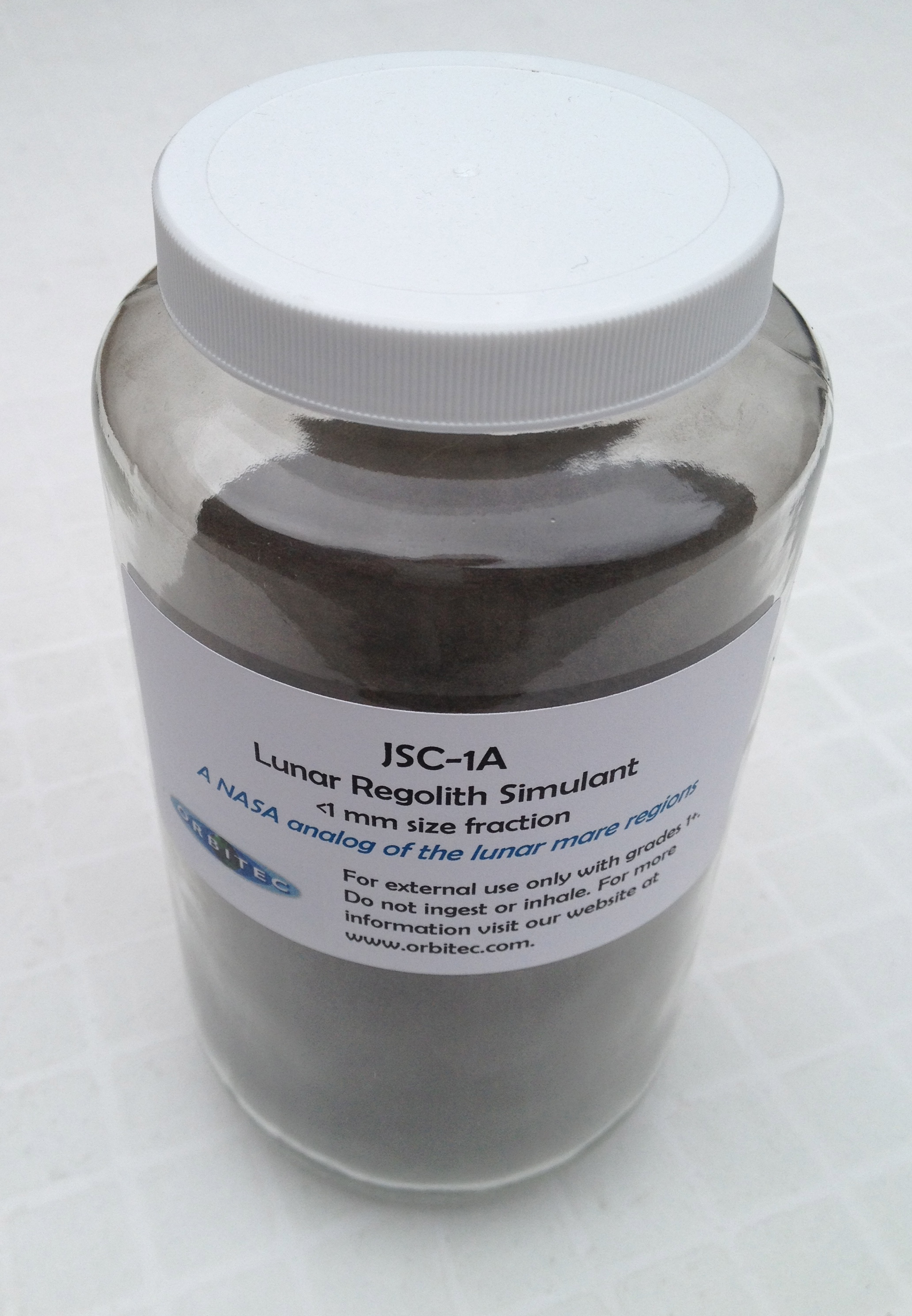 A jar containing 1 kg of JSC-1A lunar regolith simulant.